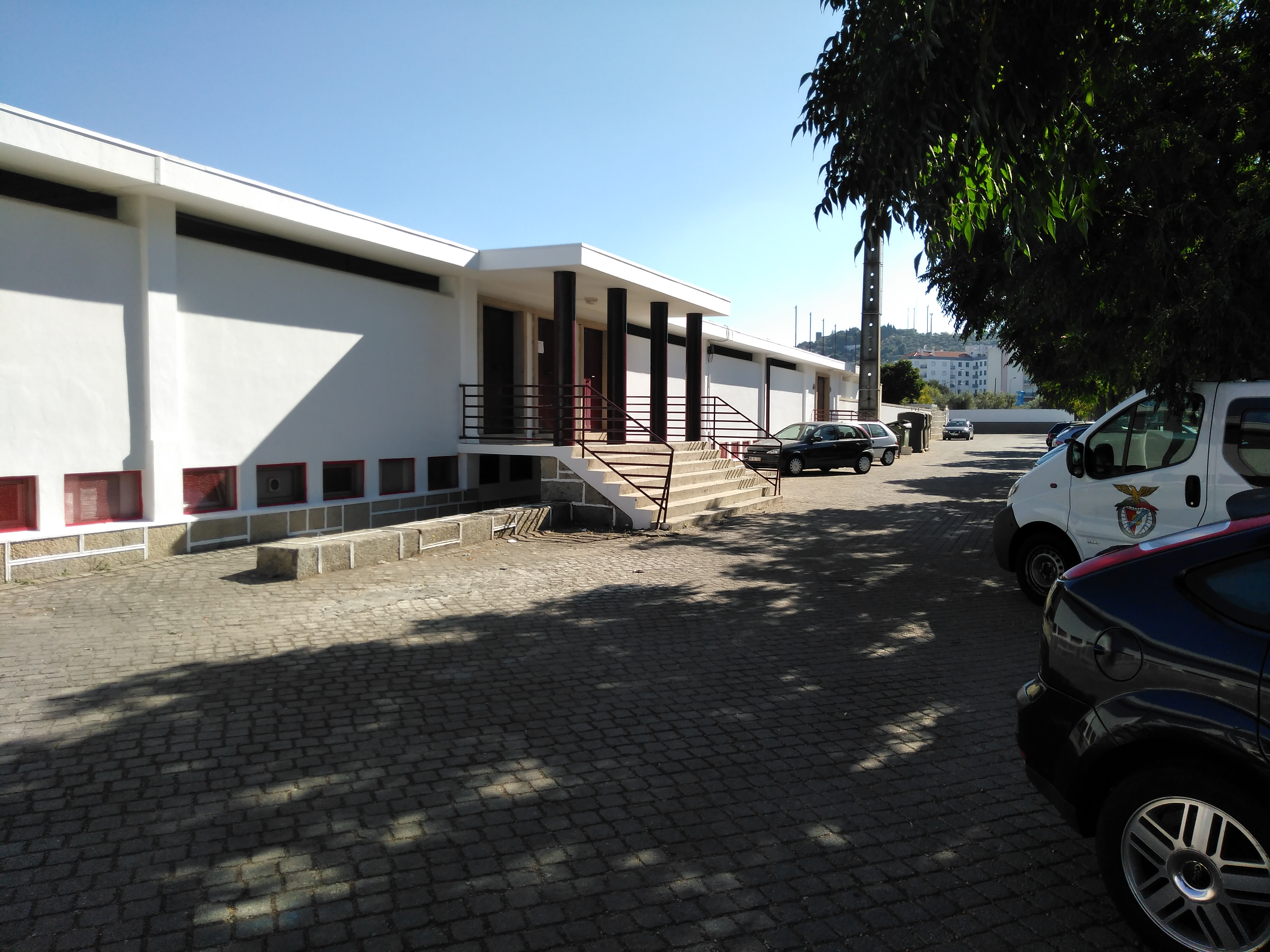 The main entrance of Estádio Municipal Vale do Romeiro